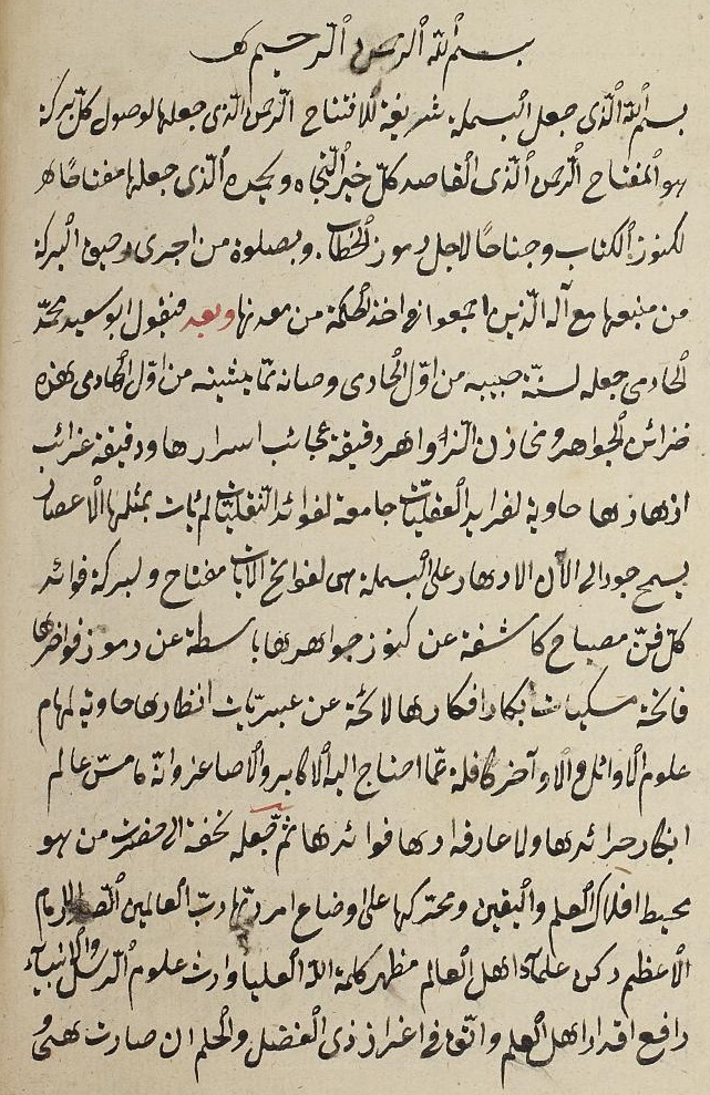 Manuscript, first page of Ḫazāʾin al-ǧawāhir wa-maḫāzin az-zawāhir by Abū Saʽīd Muḥammad al-Ḫādimī (d. 1176 H / 1763 CE). Date of Copy: ca. 1150 H/1737 CE. Staatsbibliothek zu Berlin Petermann II 671 p. 6 (Ahlwardt 2264), f. 26v.